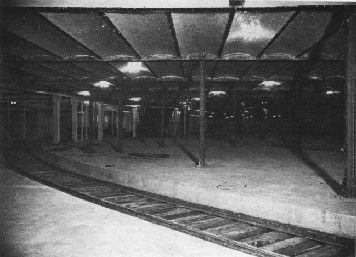 Lower level loop platforms at South Station. These were intended to be used for electrified service (steam trains could not safely operated underground) but no commuter lines were electrified and the platforms were never used.